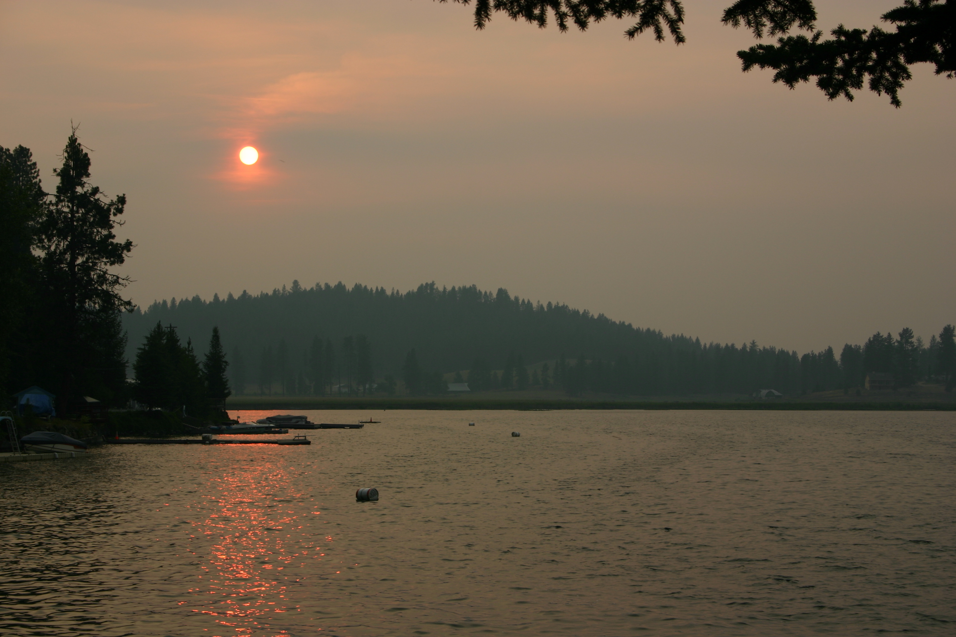 Sunset over Loon Lake, Washington. Atmospheric conditions created by forest fire about 1 mile from location photo was taken.